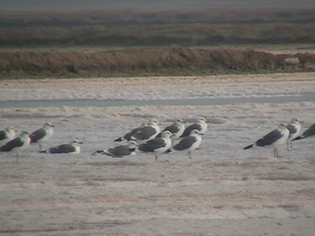 Larus heuglini. Location: Kutch